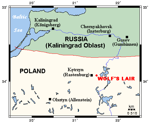 A map showing areas of the former East Prussia, and specifically the Wolf's Lair. Modern borders shown. Cities' modern Russian or Polish names shown with old German names in parentheses. This map's source is here, with the uploader's modifications, and the GMT homepage says that the tools are released under the GNU General Public License.